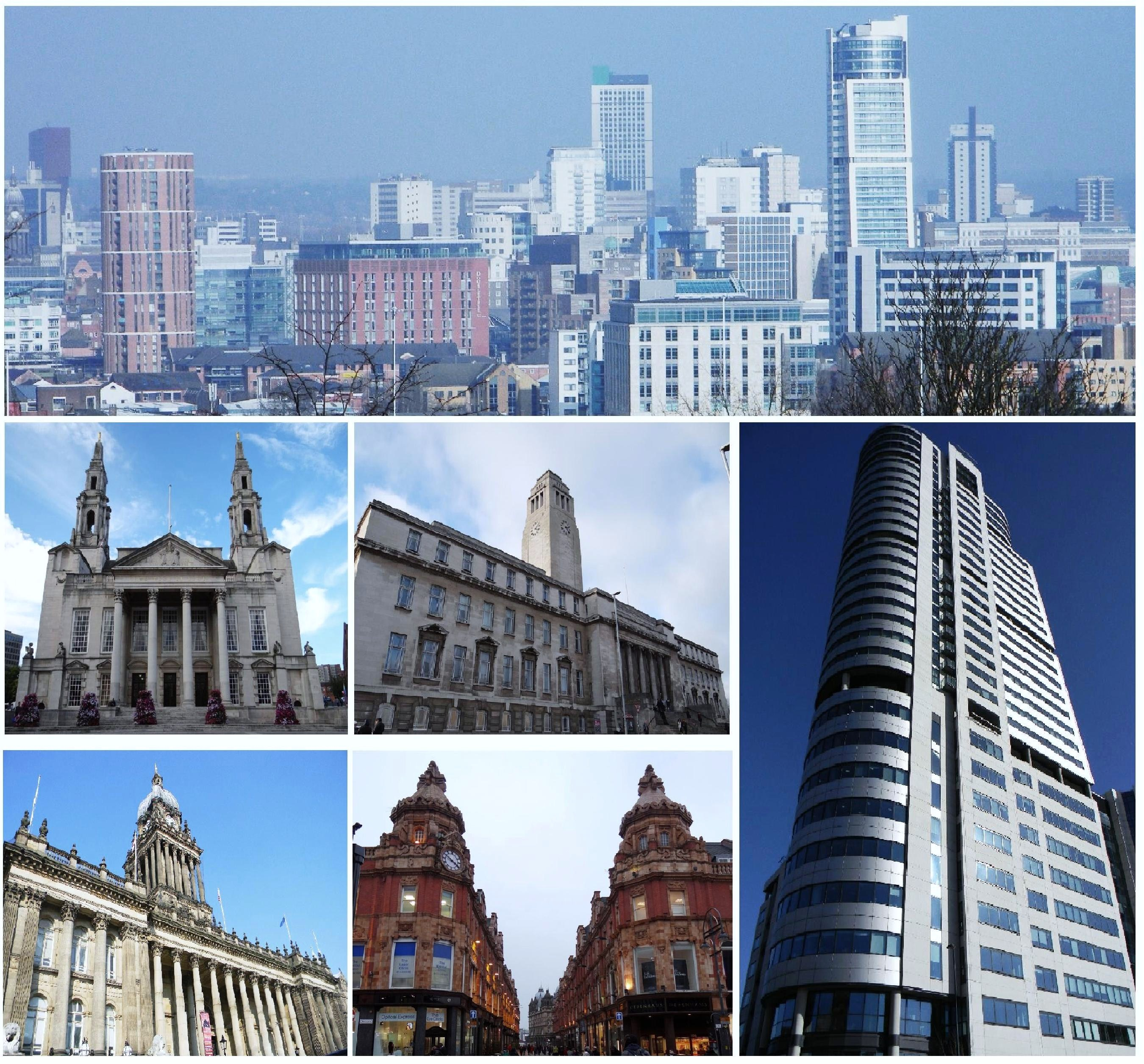 Places of interest in Leeds, England